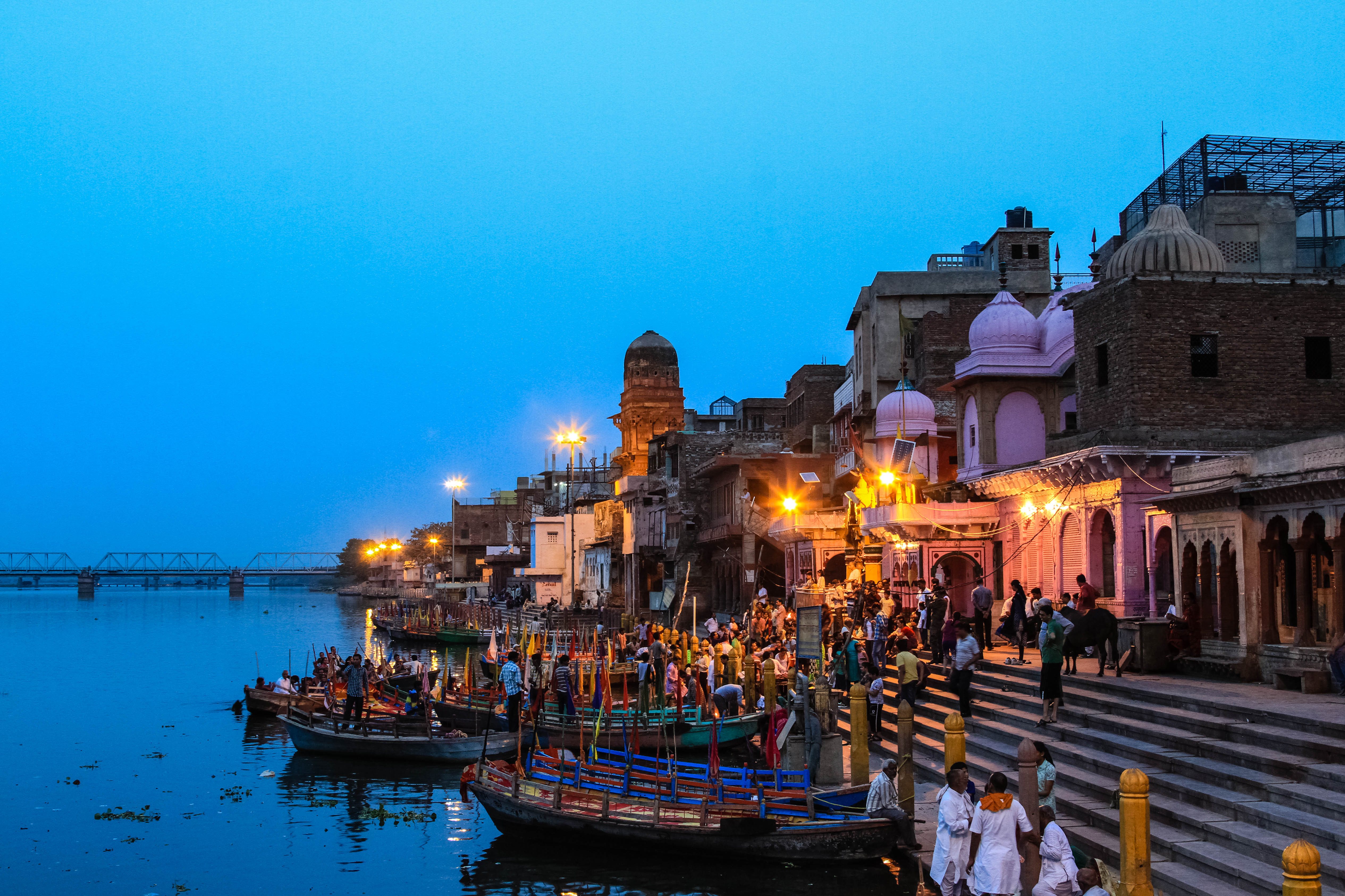 this picture is taken at vishram ghta of Mathura in the evening just before Evening Yamuna arati